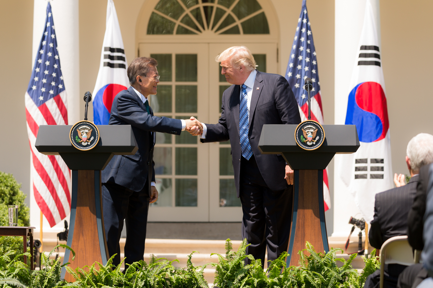 President Donald J. Trump and President Moon Jae-in of the Republic of Korea participate in joint statements on Friday, June 30, 2017, in the Rose Garden of the White House in Washington, D.C. (Official White House Photo by Shealah Craighead)